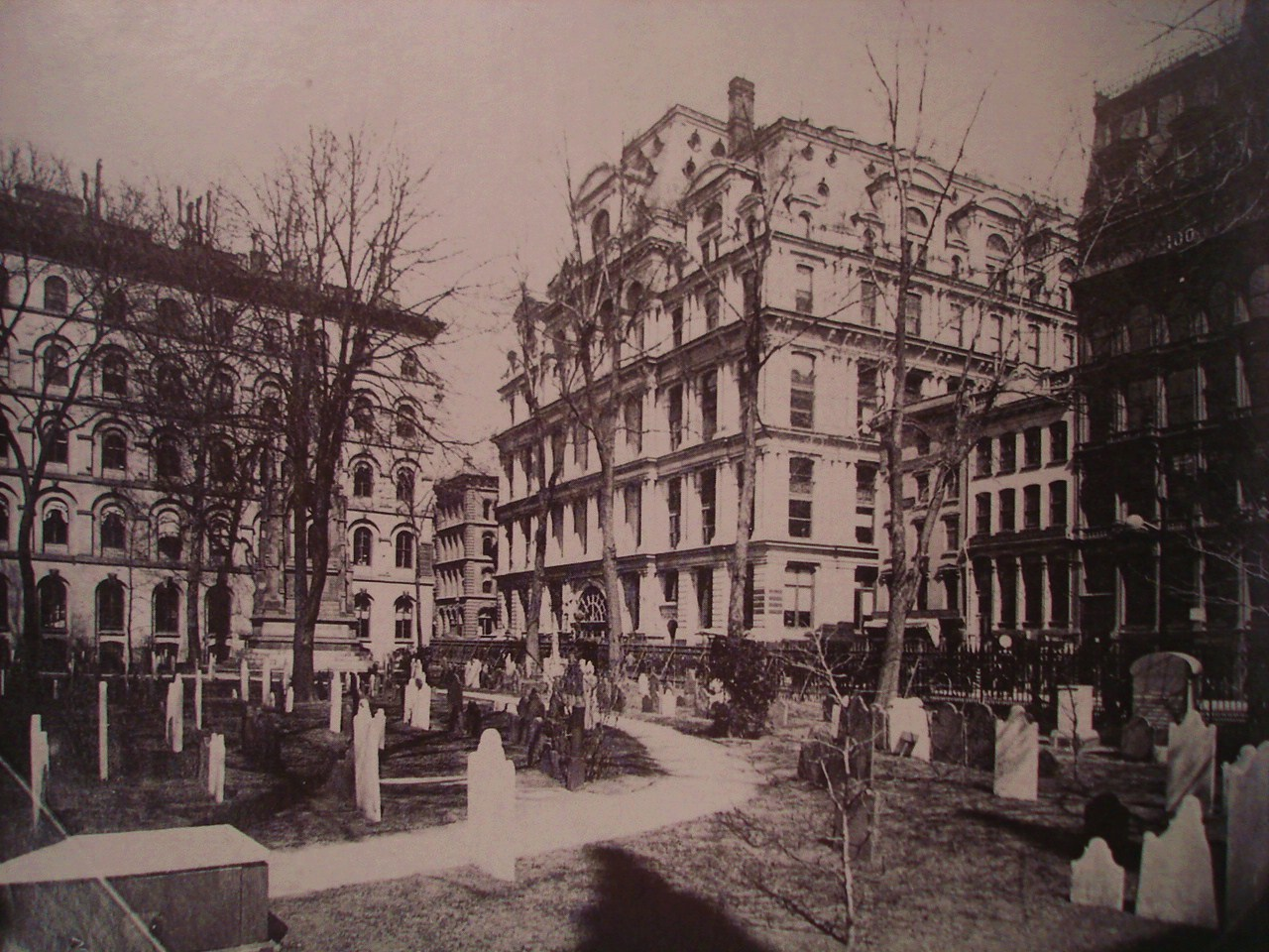 Looking northeast from Trinity churchyard across Broadway, at the Equitable Life Assurance Building, New York City (1870) destroyed by fire in 1912.